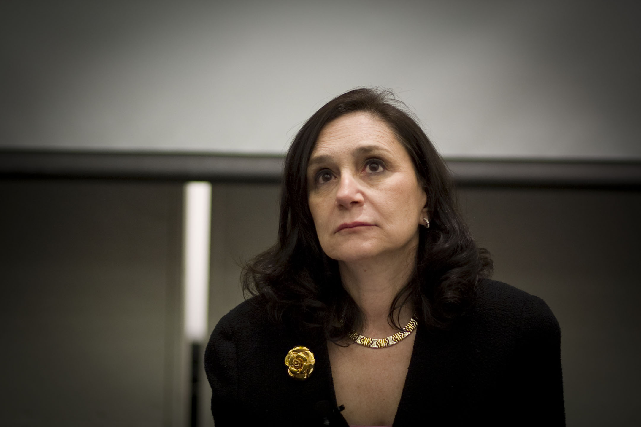 A photograph of media theorist Sherry Turkle